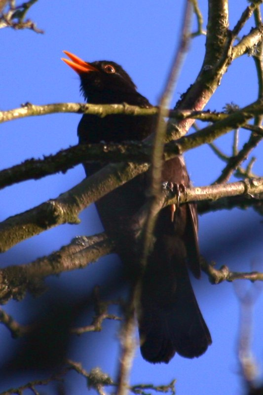 Blackbird